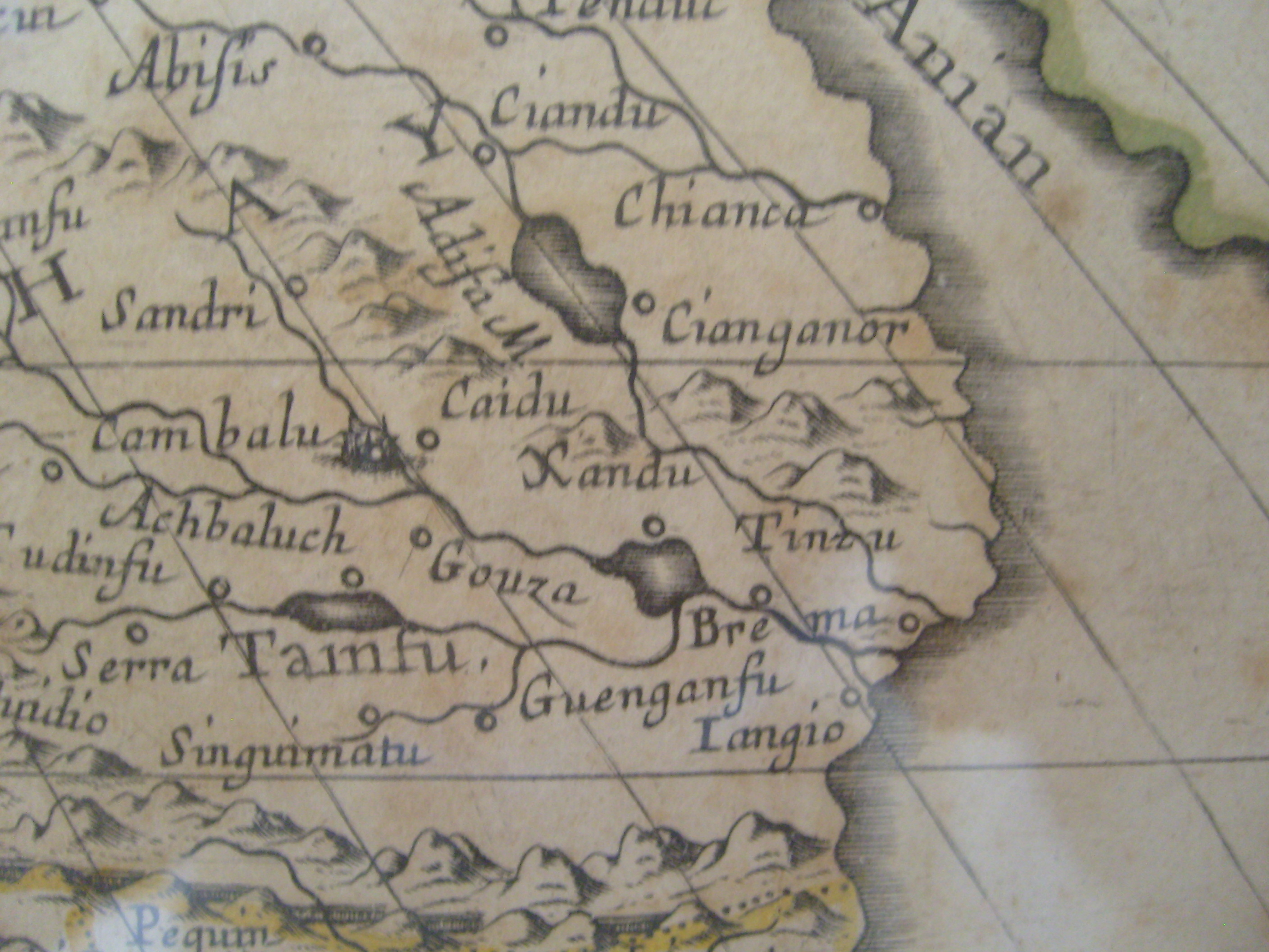 Xanadu (here spelled Xandu) on a map of Asia made by Sanson d'Abbeville, geographer of King Louis XIV, dated 1650. This map shows Cambalu and Pequin as different cities, though they were the same place, an error which was common on maps in the 17th century. When this map was made, Xanadu had already been in ruins for three centuries.